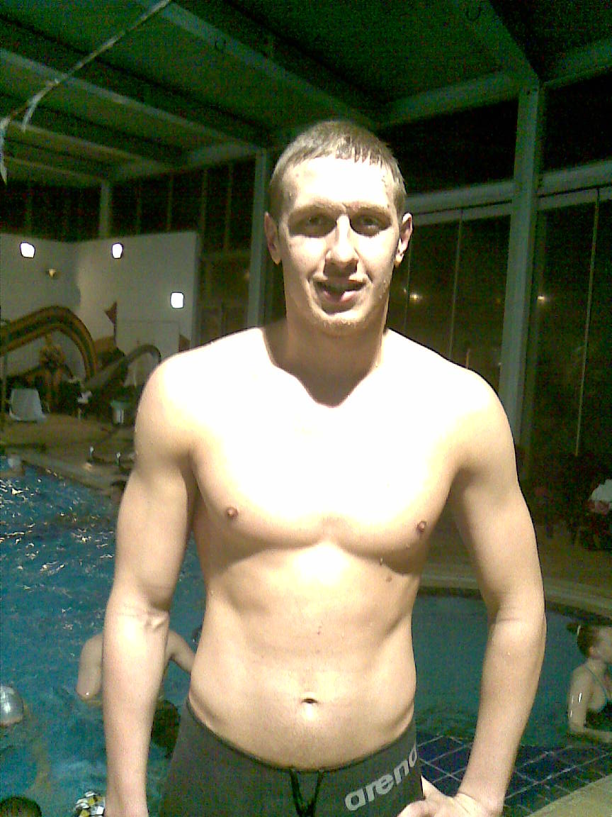 Yuri Smoilich, Israeli swimming championship (25 m'), Ashdot Ya'akov Meuhad, February 2012